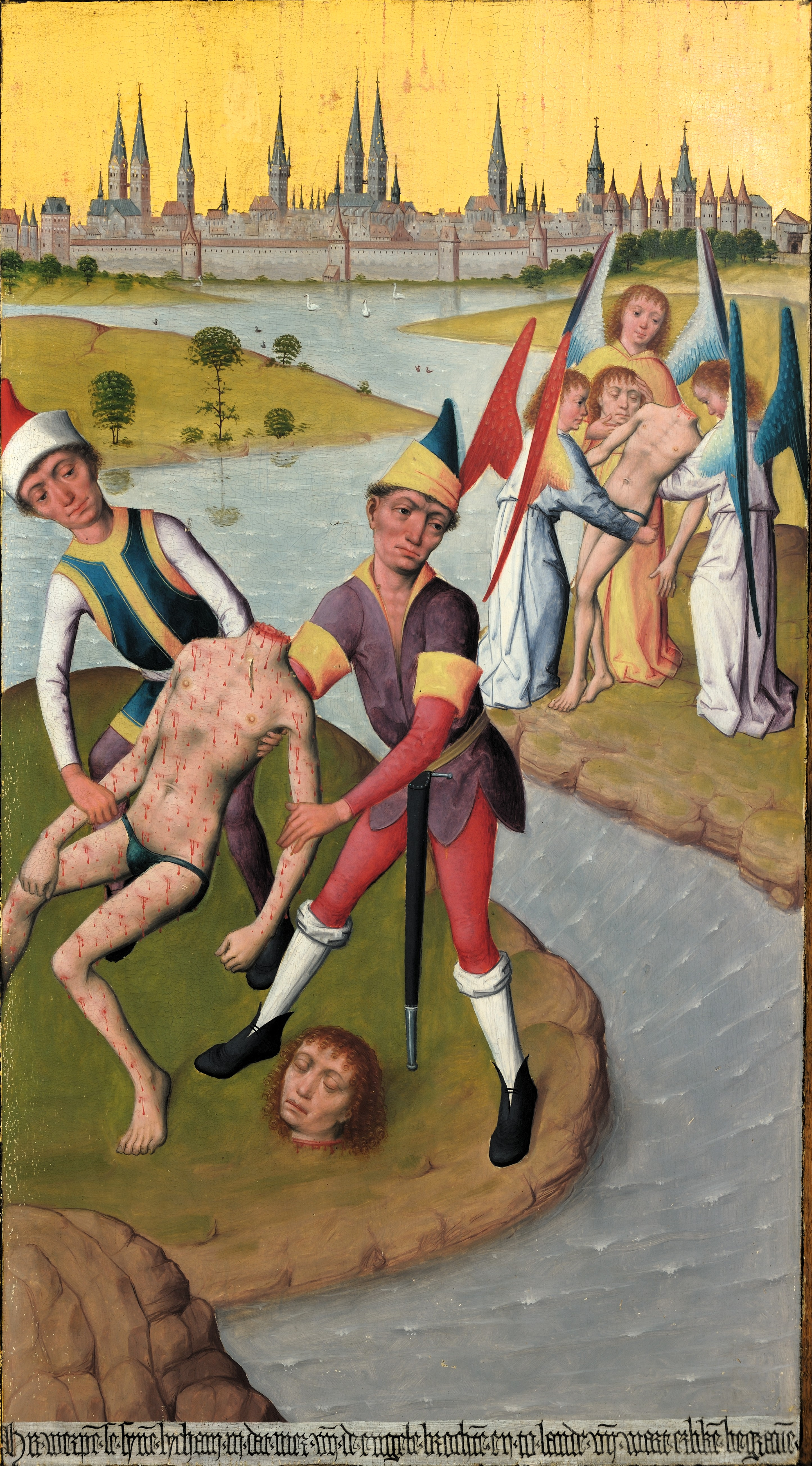 Detail from 2nd view of Altarpiece by Hermen Rode in Tallinn: Legend of St. Victor with a panorama of Lübeck in the background (the earliest preserved view of Lübeck)